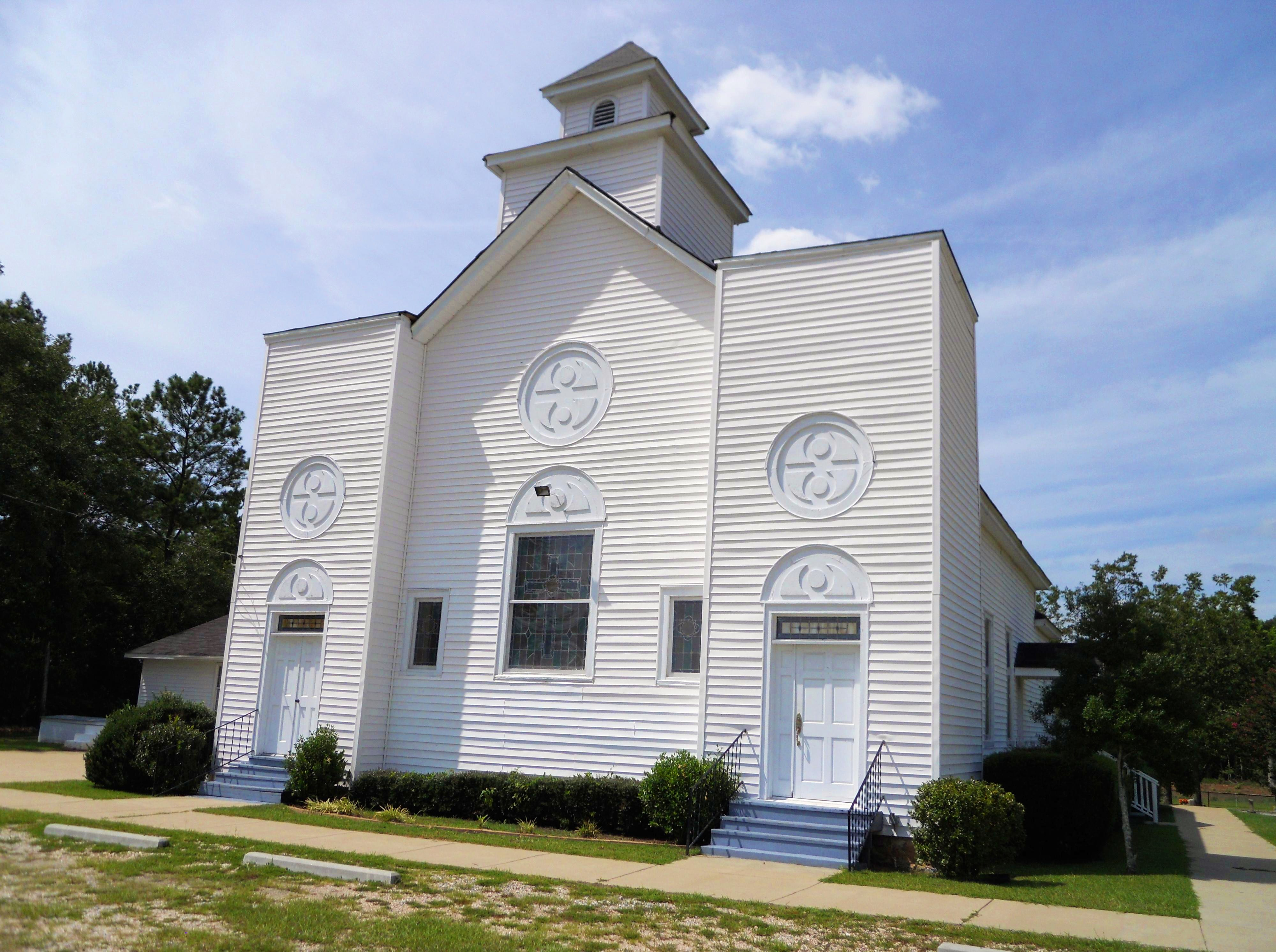 This is a photograph of the Midway Baptist Church located in the Sunnyside School-Midway Baptist Church and Midway Cemetery Historic District in Hamilton, Georgia.